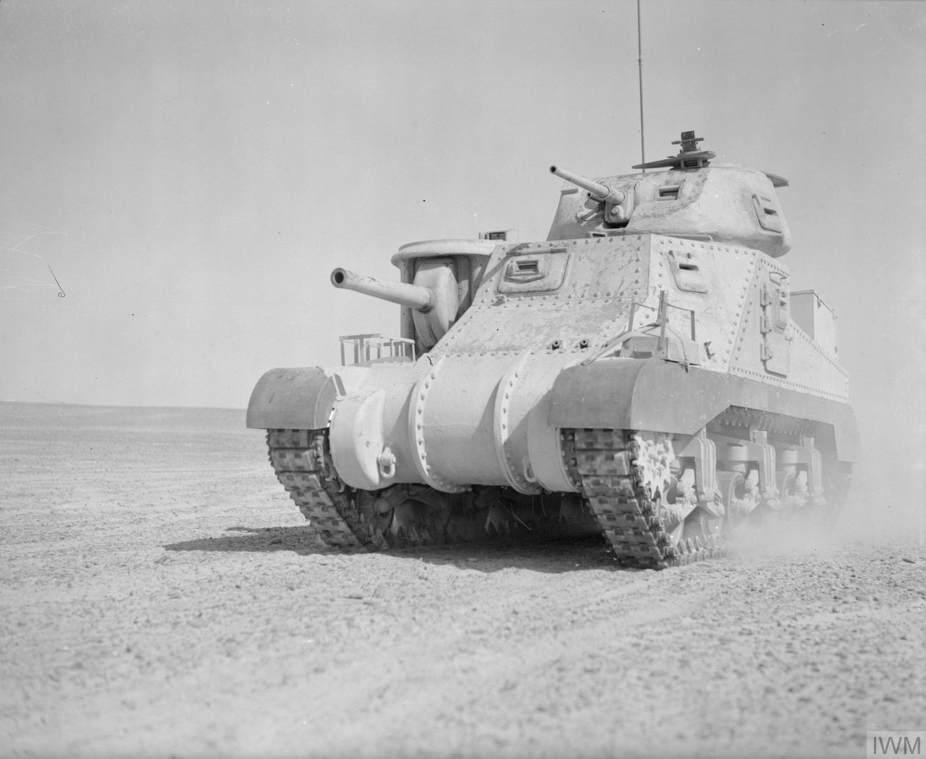 The British Army in North Africa 1942 A Grant tank in the Western Desert, 17 February 1942.